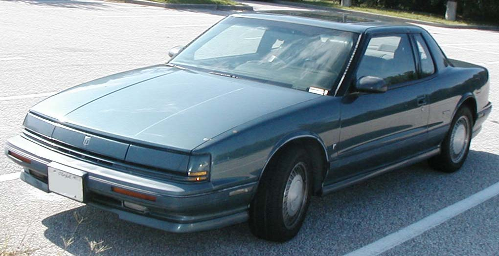 1986-1992 Oldsmobile Toronado photographed in USA.